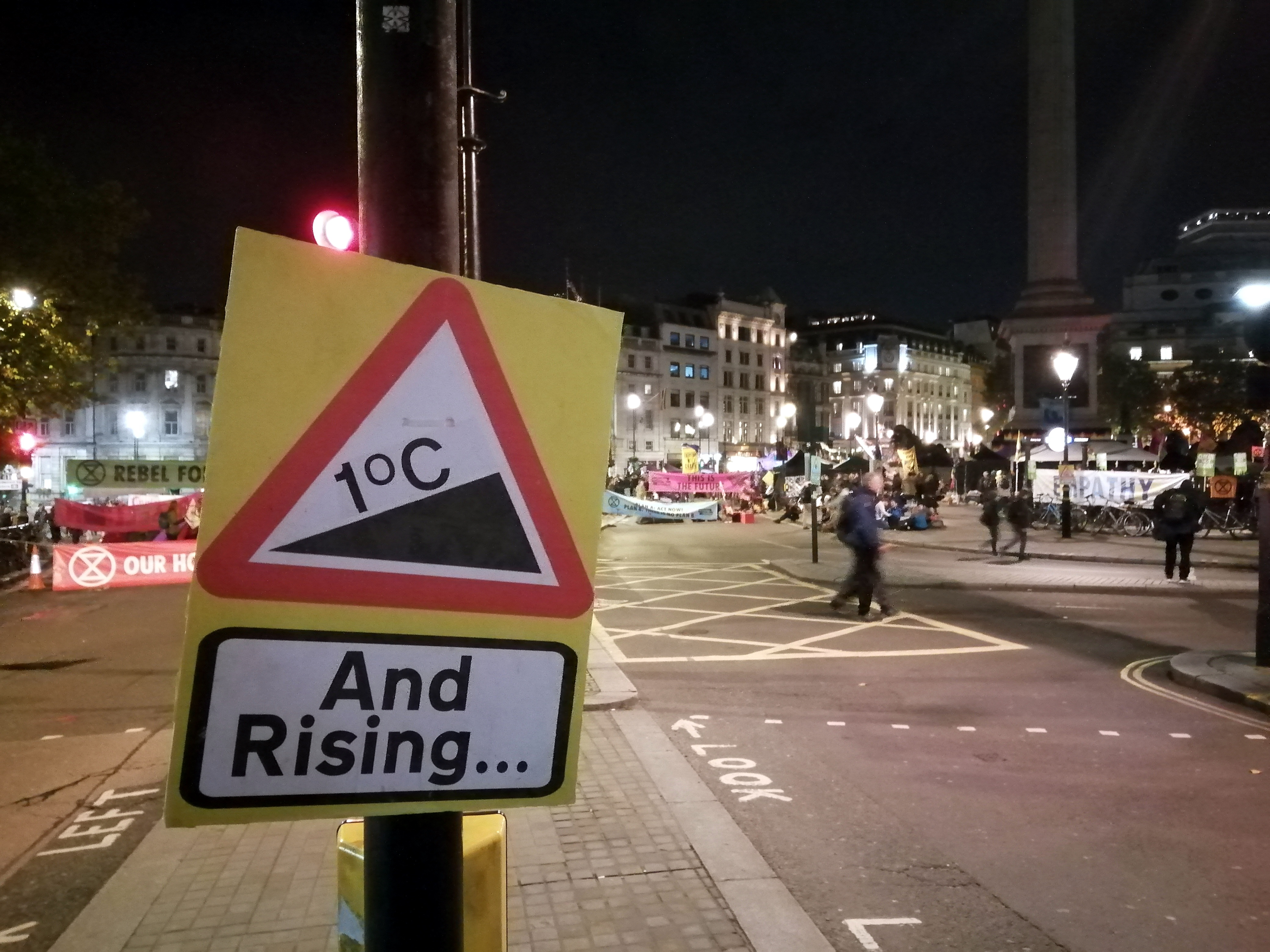 Extinction Rebellion protest in Trafalgar Square, on 9 October 2019.